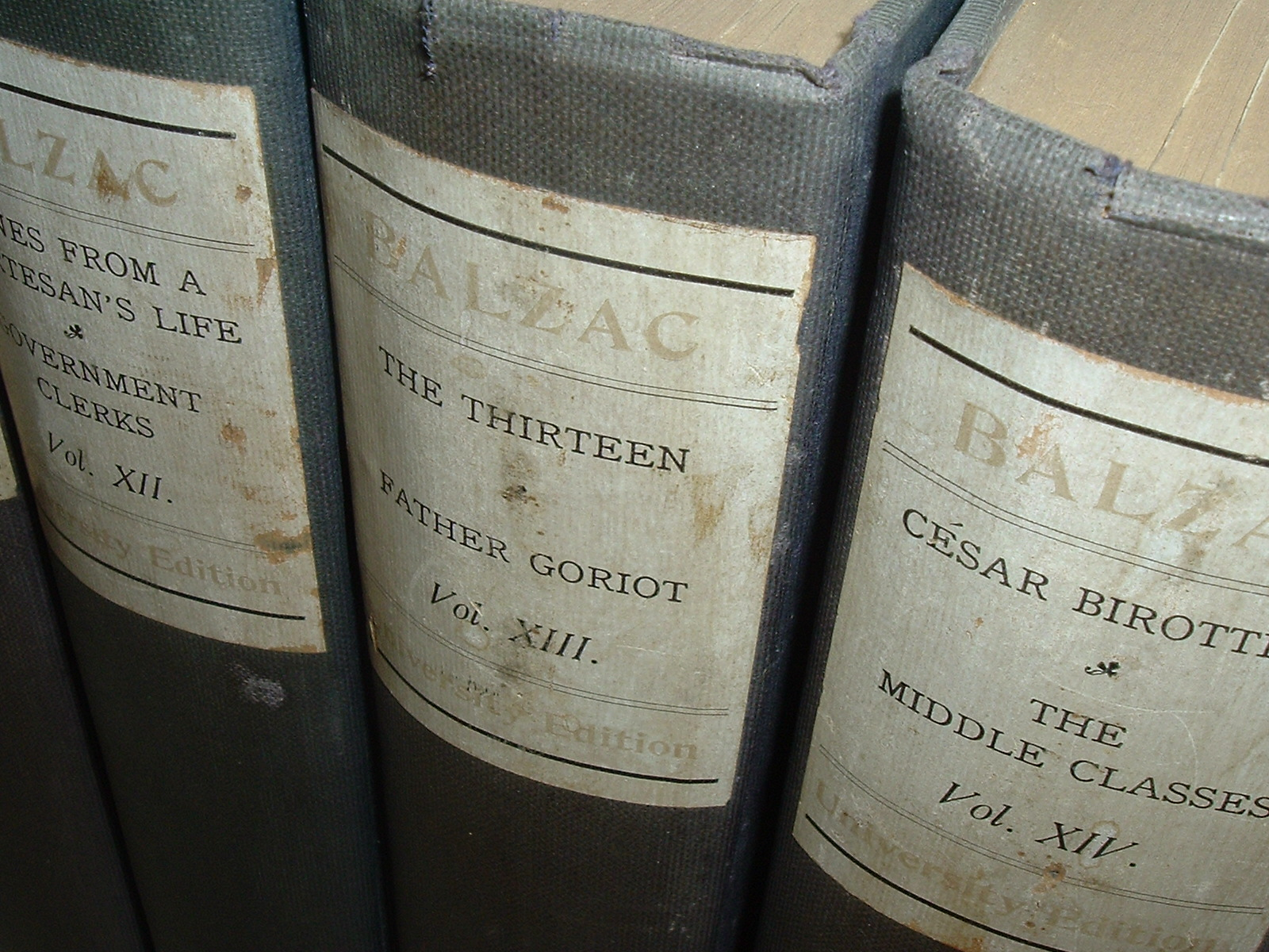 A photo of several volumes from the 1901 University Edition of The Works of Honoré de Balzac